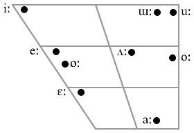 IPA vowel chart for Korean long vowels.